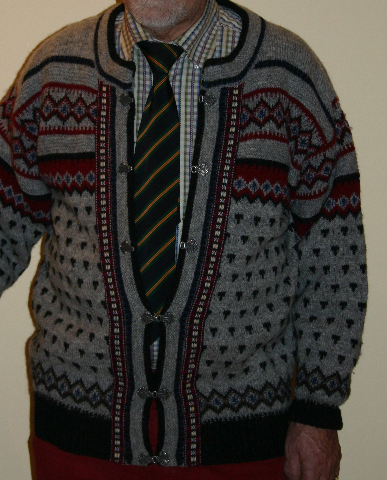 Lusekofte.